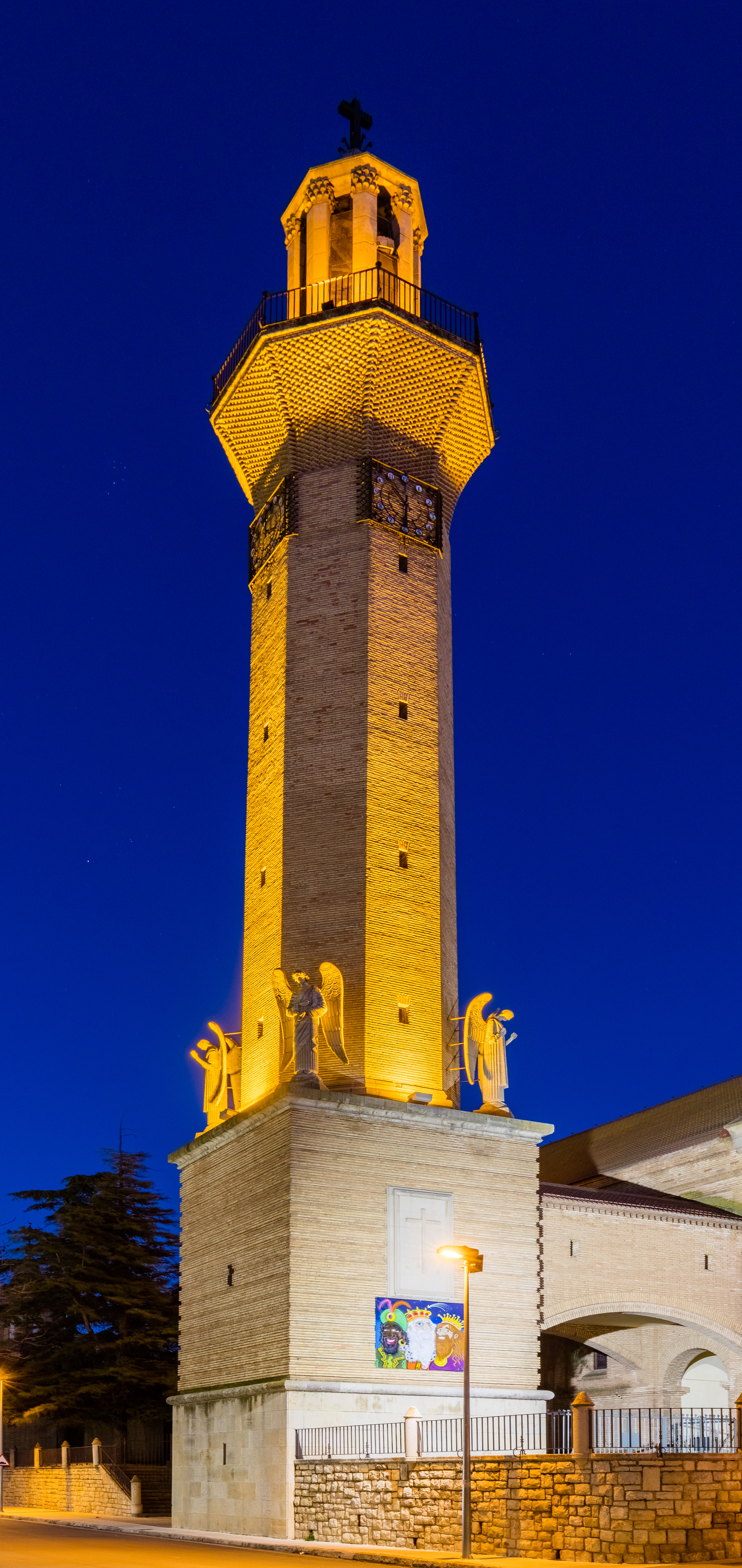 New church of San Martín de Tours, Belchite, Zaragoza, Spain